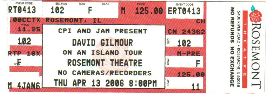 Ticket scan for David Gilmour @ Rosemont Theater, Rosemont, IL April 13, 2006